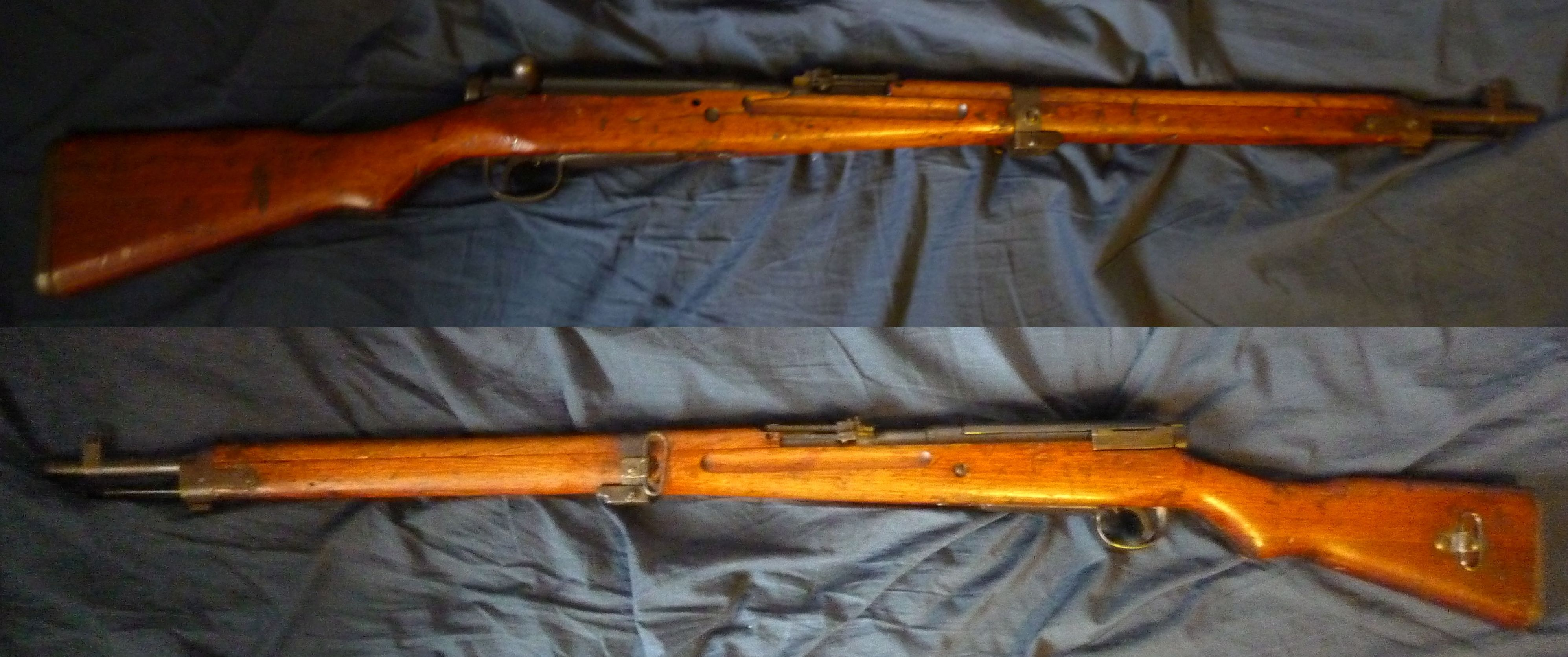 Full view of a early Type 99 short rifle.